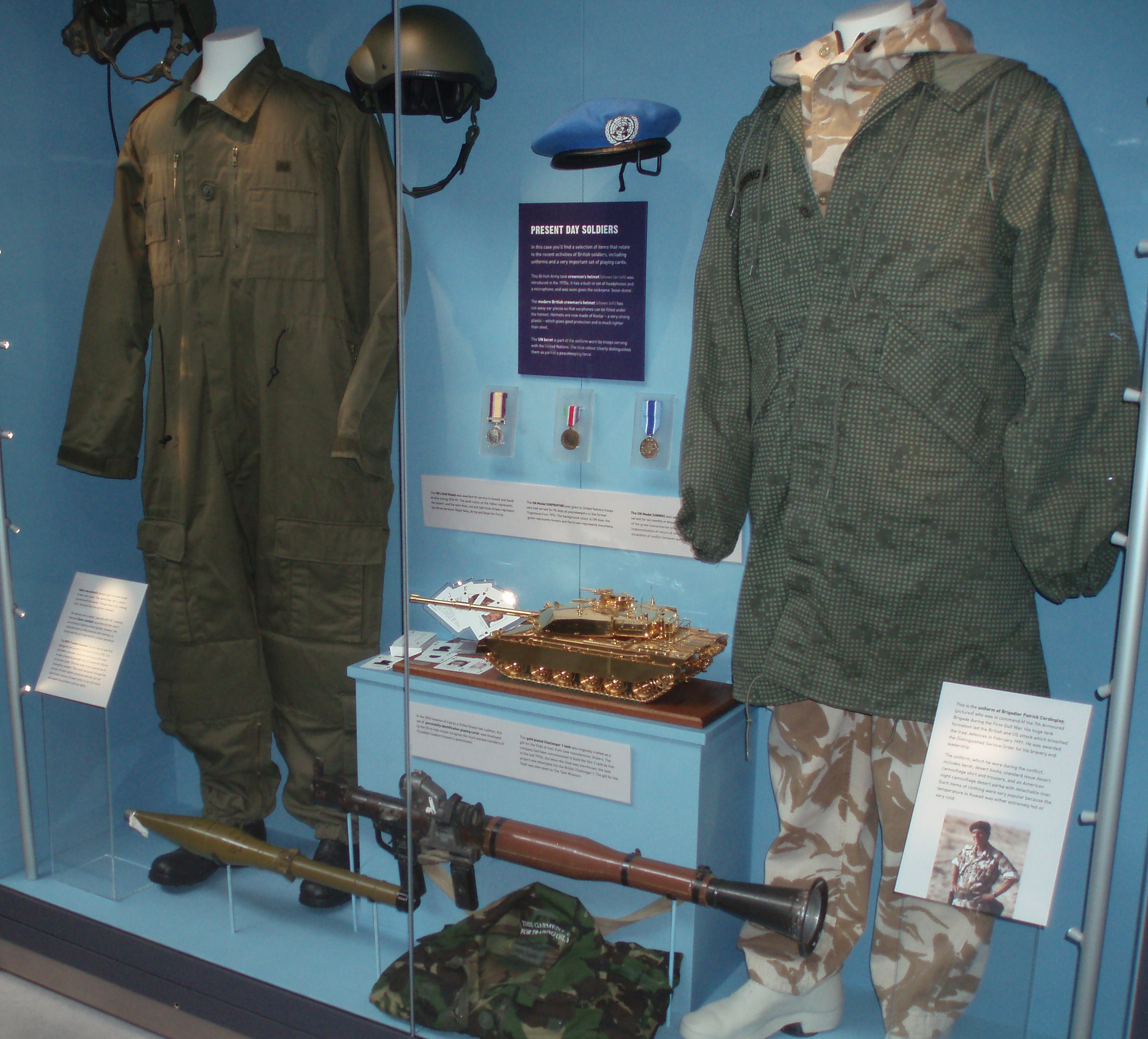 Bovington Tank Museum 169